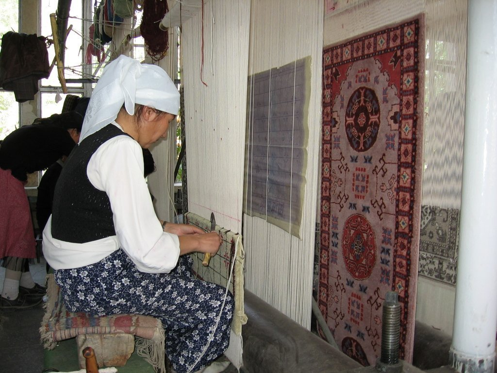 Khotan (Hotan / Hetian) is an oasis city in the Xinjiang Uygur Autonomous Region of the People's Republic of China. Carpet factory.